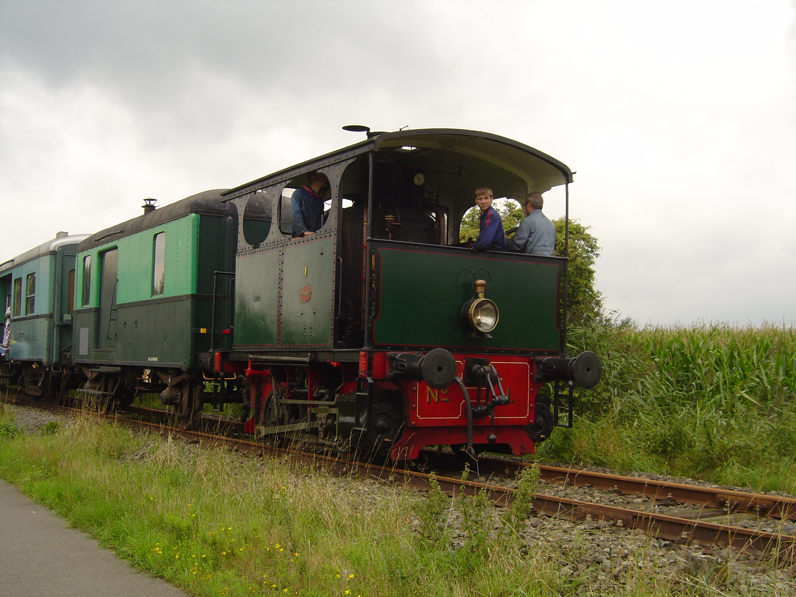 Vertical boiler loco Cockerill on the Dendermonde-Puurs Steam Railway